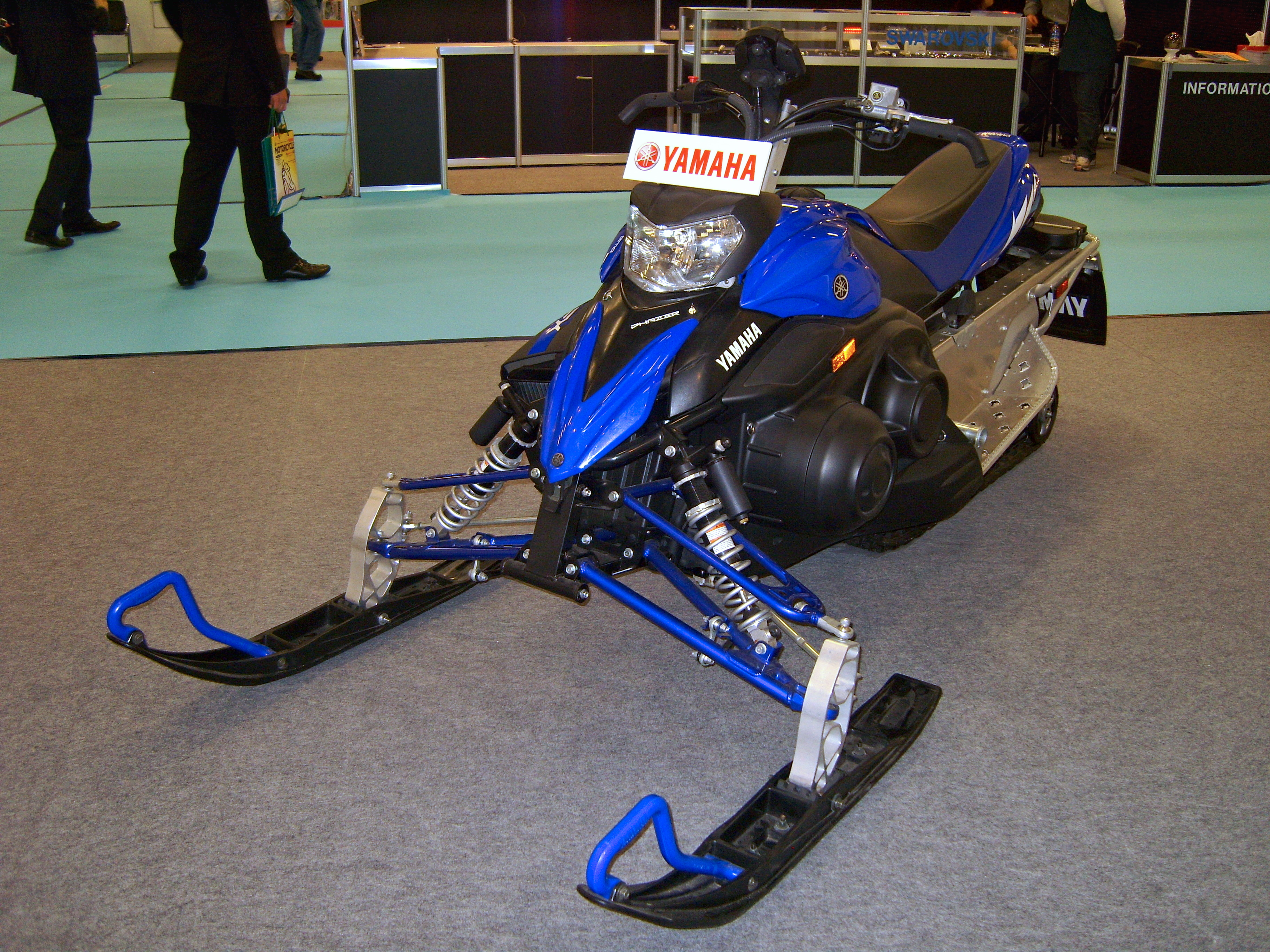 2008 AutoTronics Taipei & Motorcycle Taiwan Joint Opening: Yamaha Phazer at Fi Pavilion.